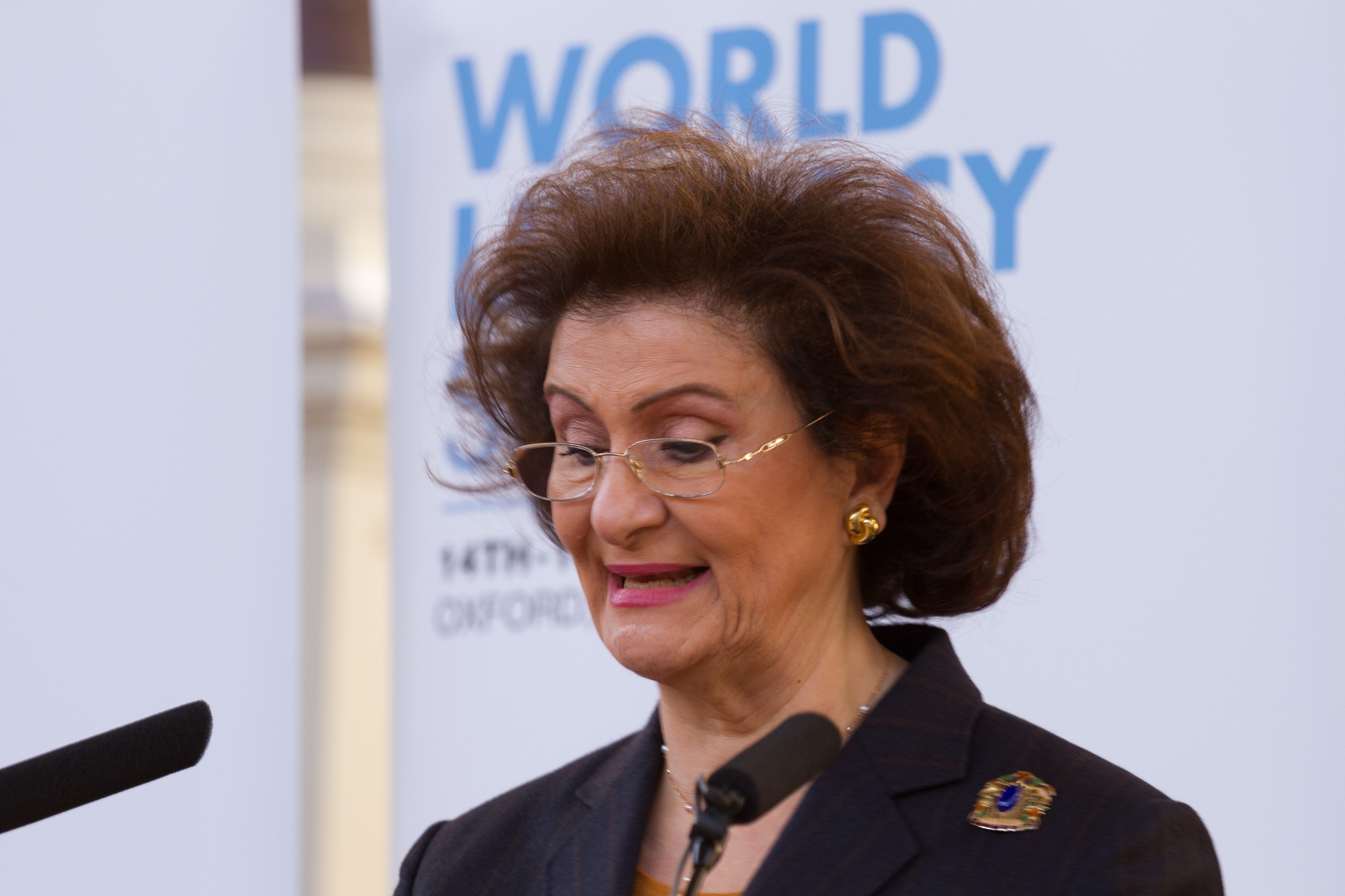 Haifa Fahoum Al Kaylani, Founder Chair of the Arab International Women’s Forum, at the World Literacy Summit 2014 in Oxford.